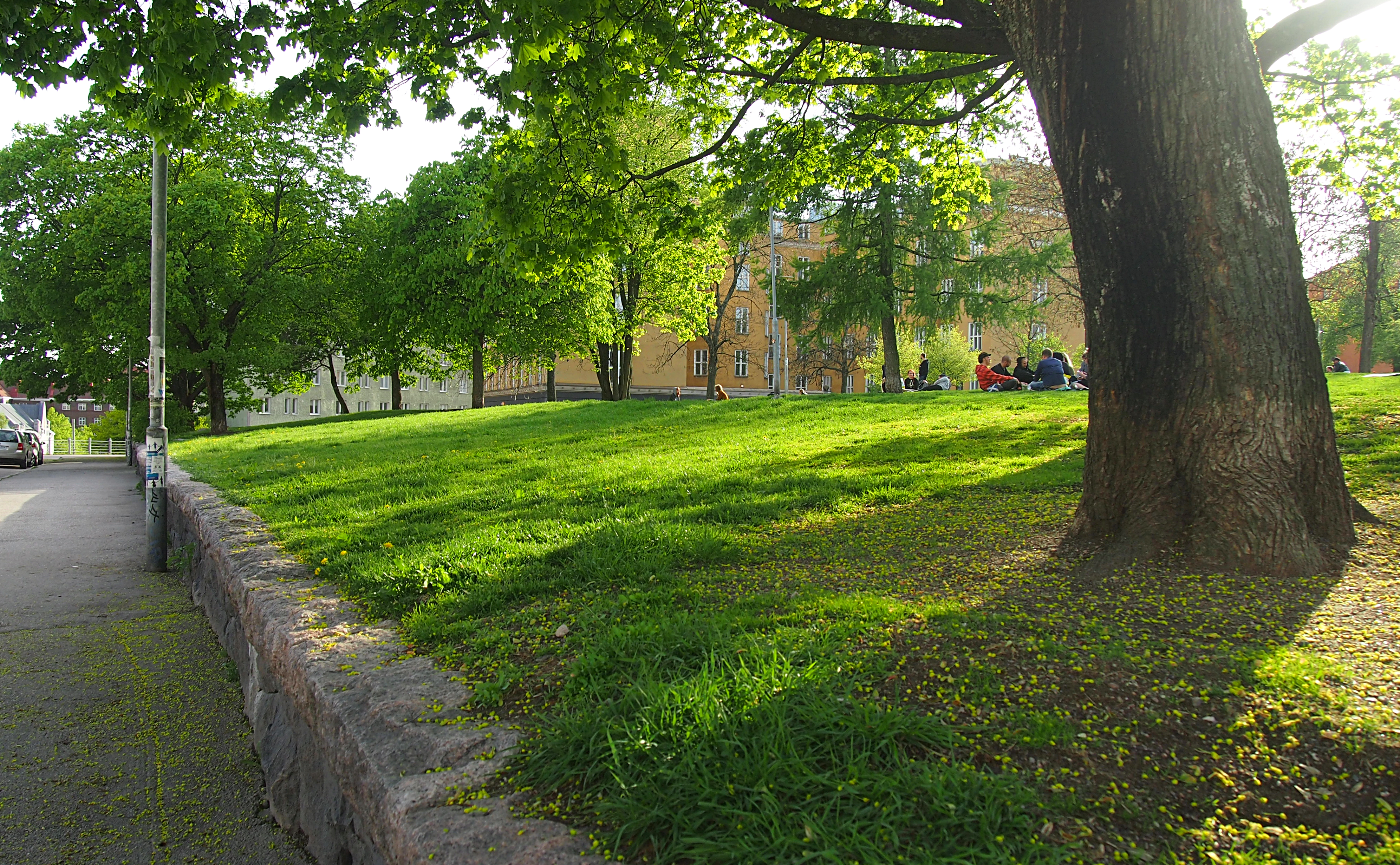 The park Pengerpuisto in Kallio, Helsinki, Finland.